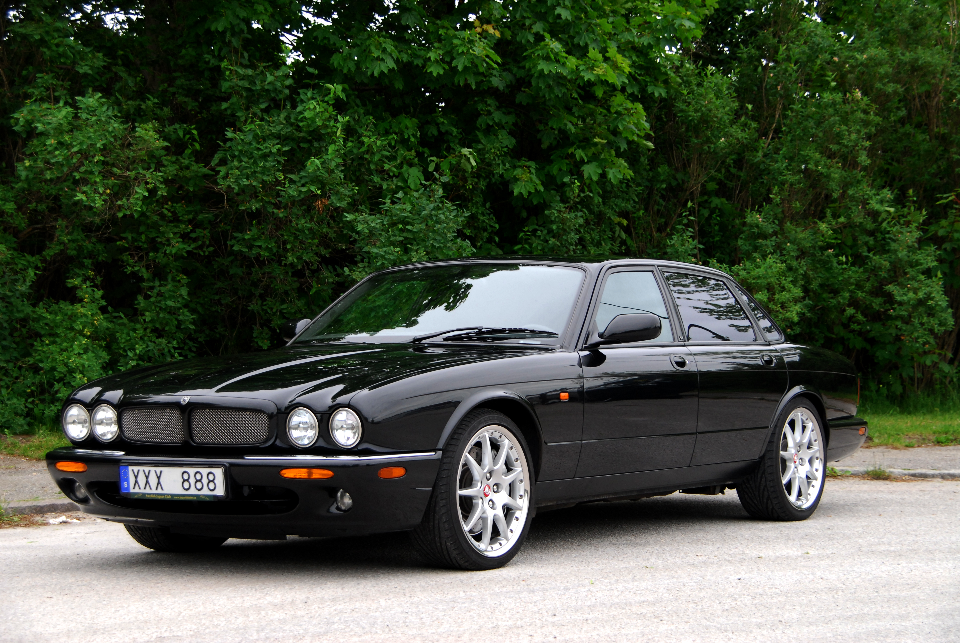 Jaguar XJR 100 Camera: Nikon D200 Location: Lund, Sweden